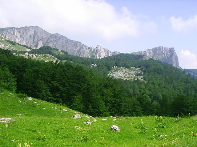 Treskavica mountains in Bosnia and Herzegovina